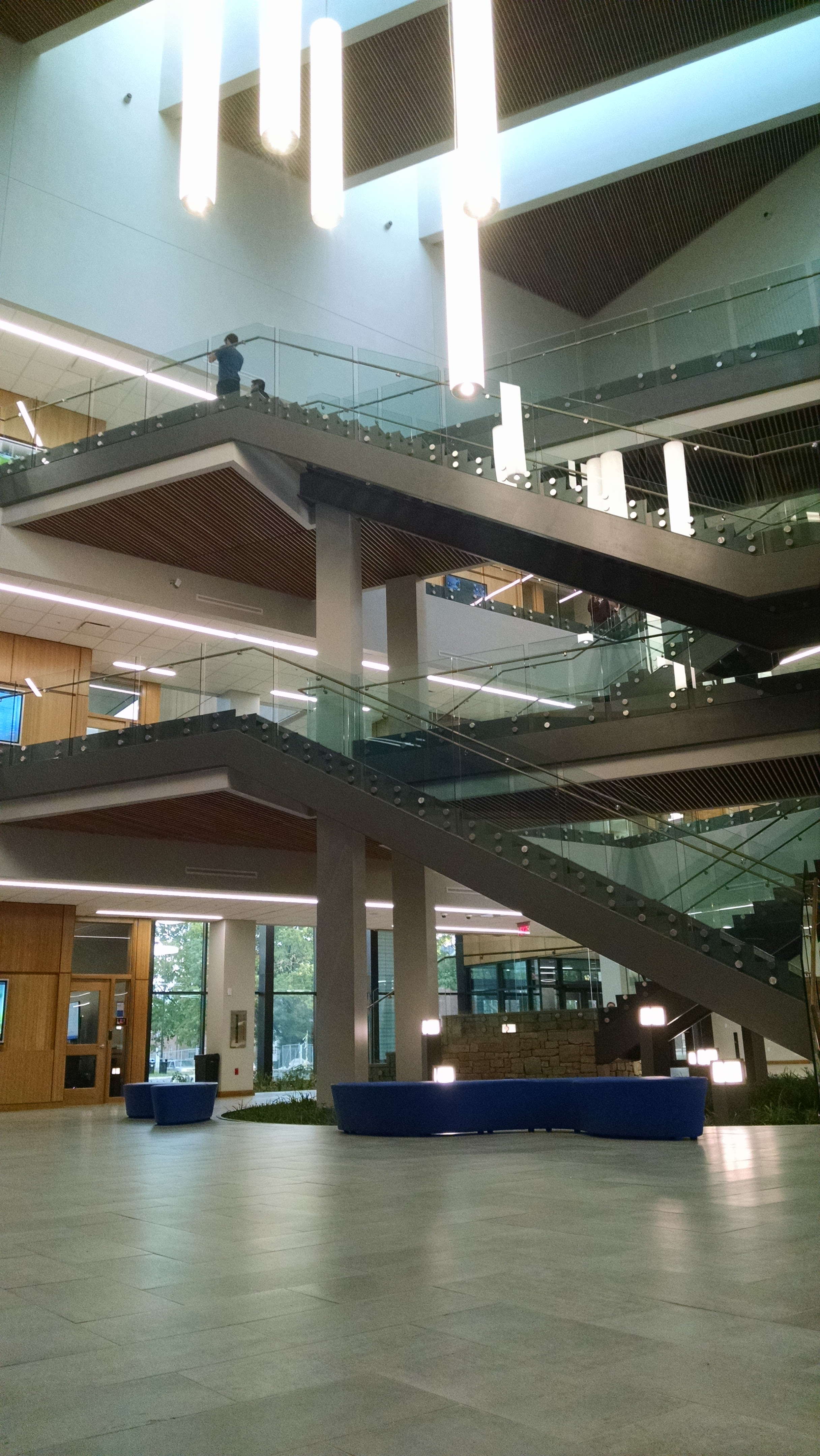 Interior shot from 2016 showcasing stairway